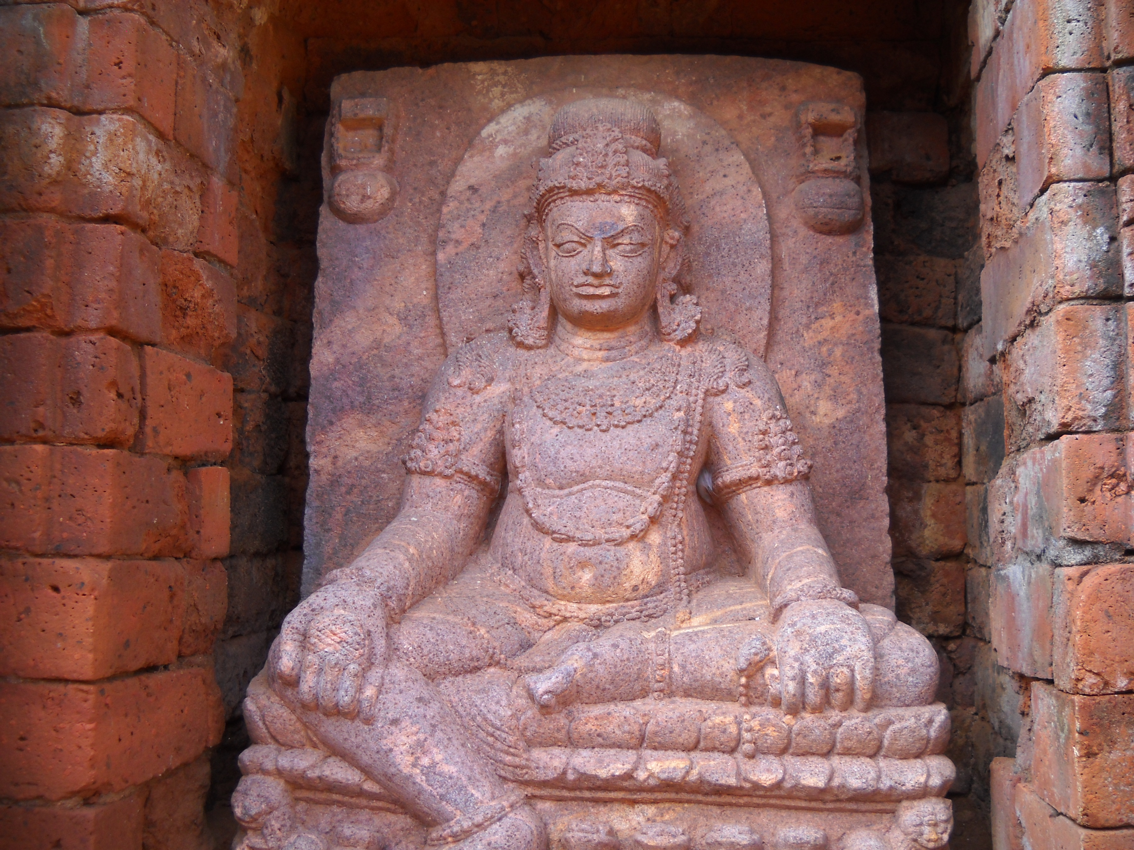 Hill containing many valuable sculptures and images